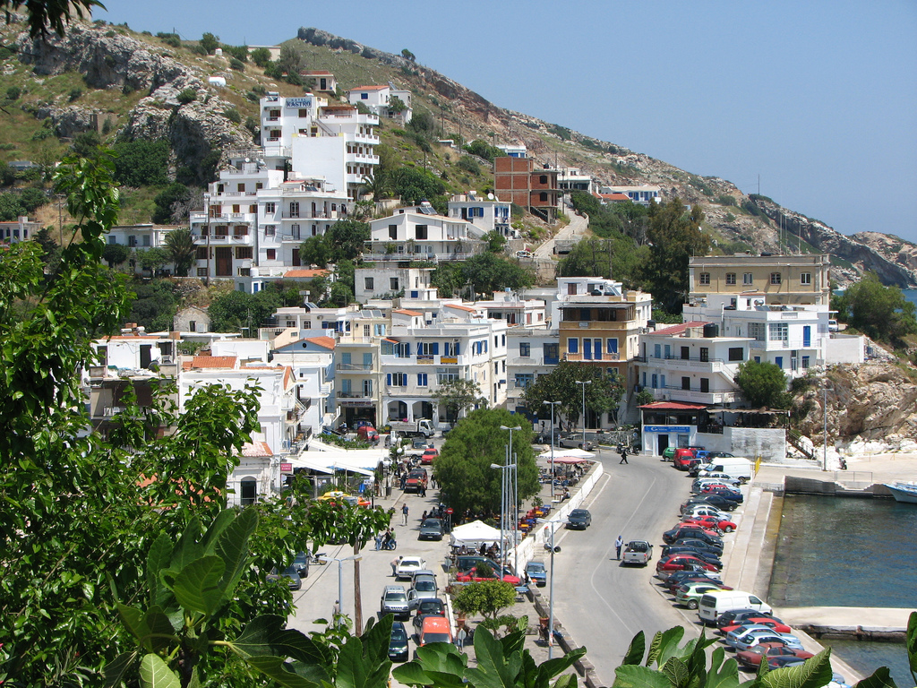 Agios Kirykos (Greek: Άγιος Κήρυκος) is a municipality on the island of Icaria, Samos Prefecture, Greece